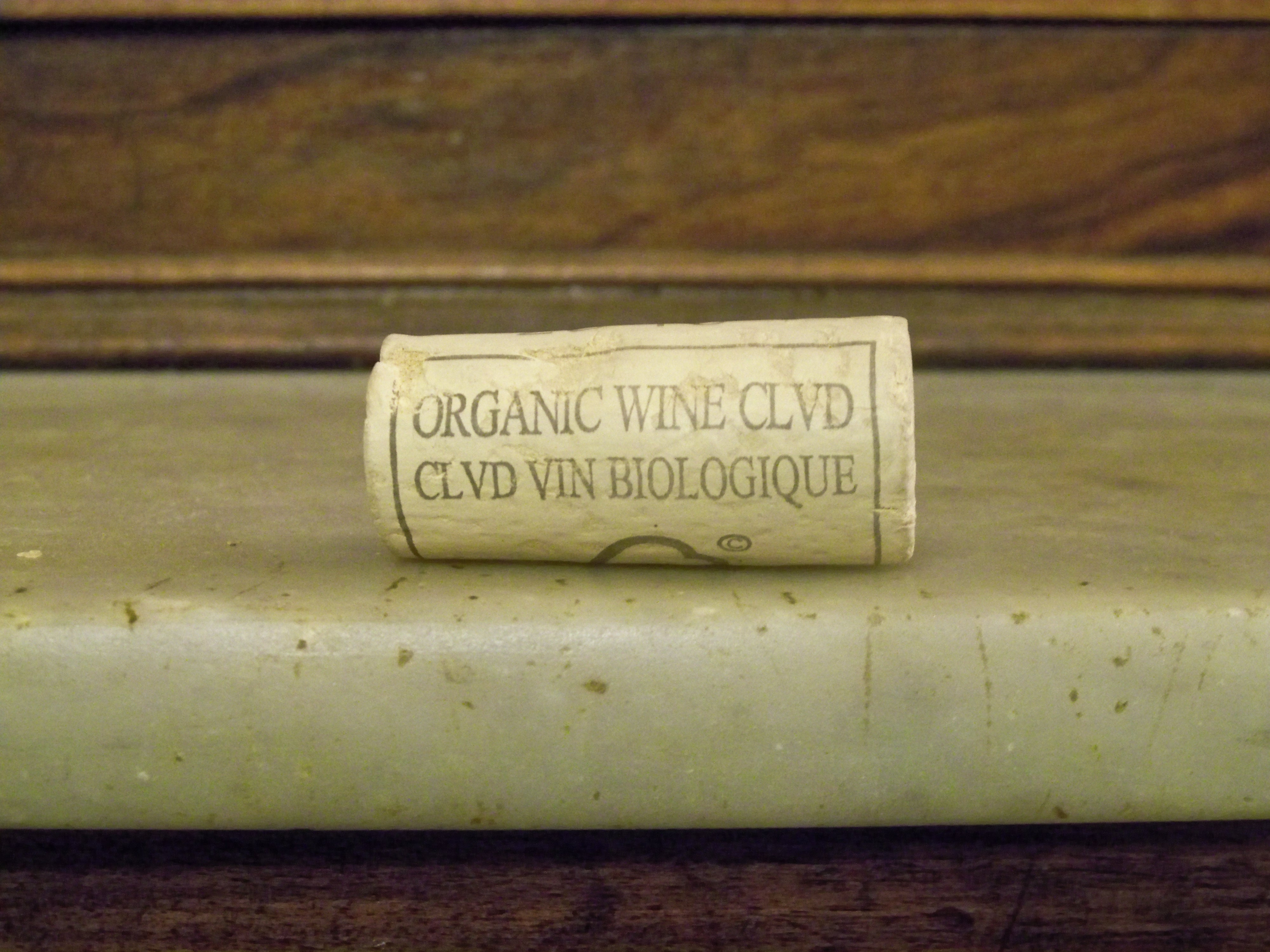 Organic wine clossure